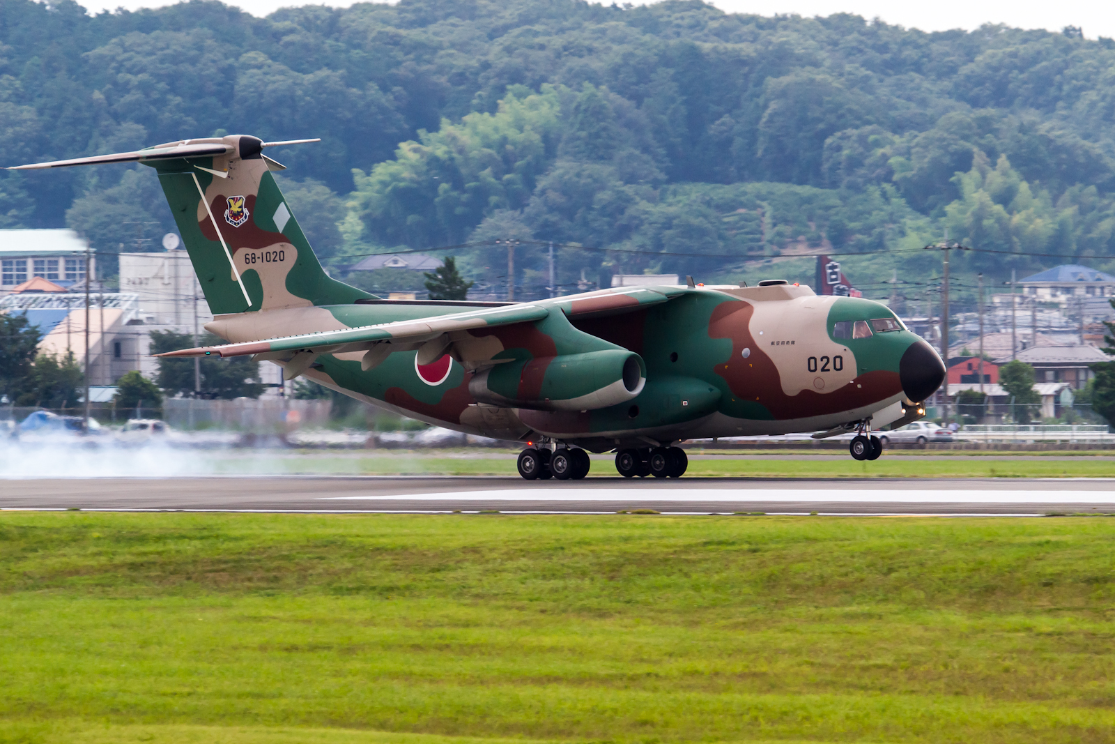 Aircraft: Kawasaki Heavy Industries C-1 (S/N:68-1020) Squadron: JASDF 2nd Tactical Airlift Group / 402SQ (航空自衛隊 第2輸送航空隊 第402飛行隊） Base: JASDF Iruma AB(RJTJ), Saitama-ken, Japan 17/08/2012 USAF Yokota AB, Japan